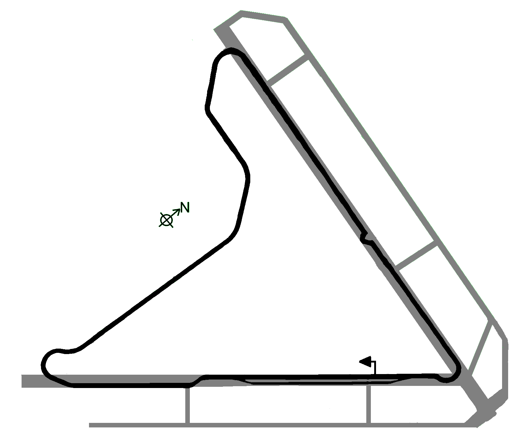 Wunstorf airfield circuit layout from 1993